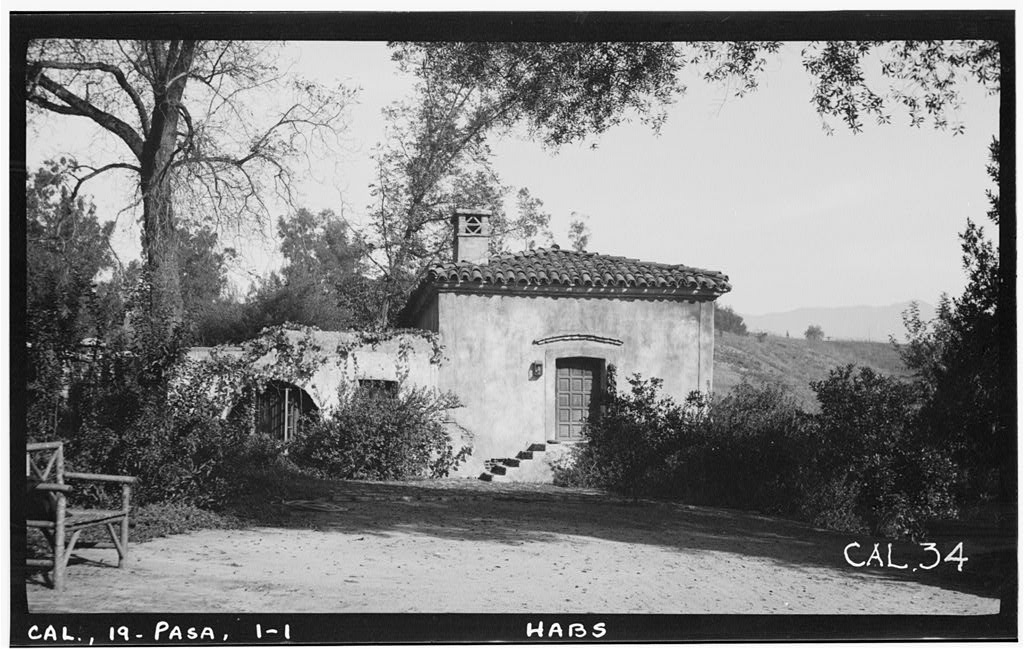 El Molino Viejo — 19th century adobe corn and flour mill for Mission San Gabriel Arcángel. Present day museum located 1120 Old Mill Road, San Marino (near Pasadena), Los Angeles County, California.